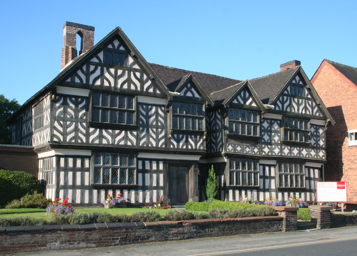 Churche's Mansion, Hospital Street, Nantwich Churche's Mansion is a grade-I-listed black-and-white timber-framed Elizabethan mansion house. It was built for Richard Churche, a local merchant, and his wife Margerye by Thomas Clease in 1577, and is one of the few buildings to have survived the Great Fire of Nantwich of 1583. For more information